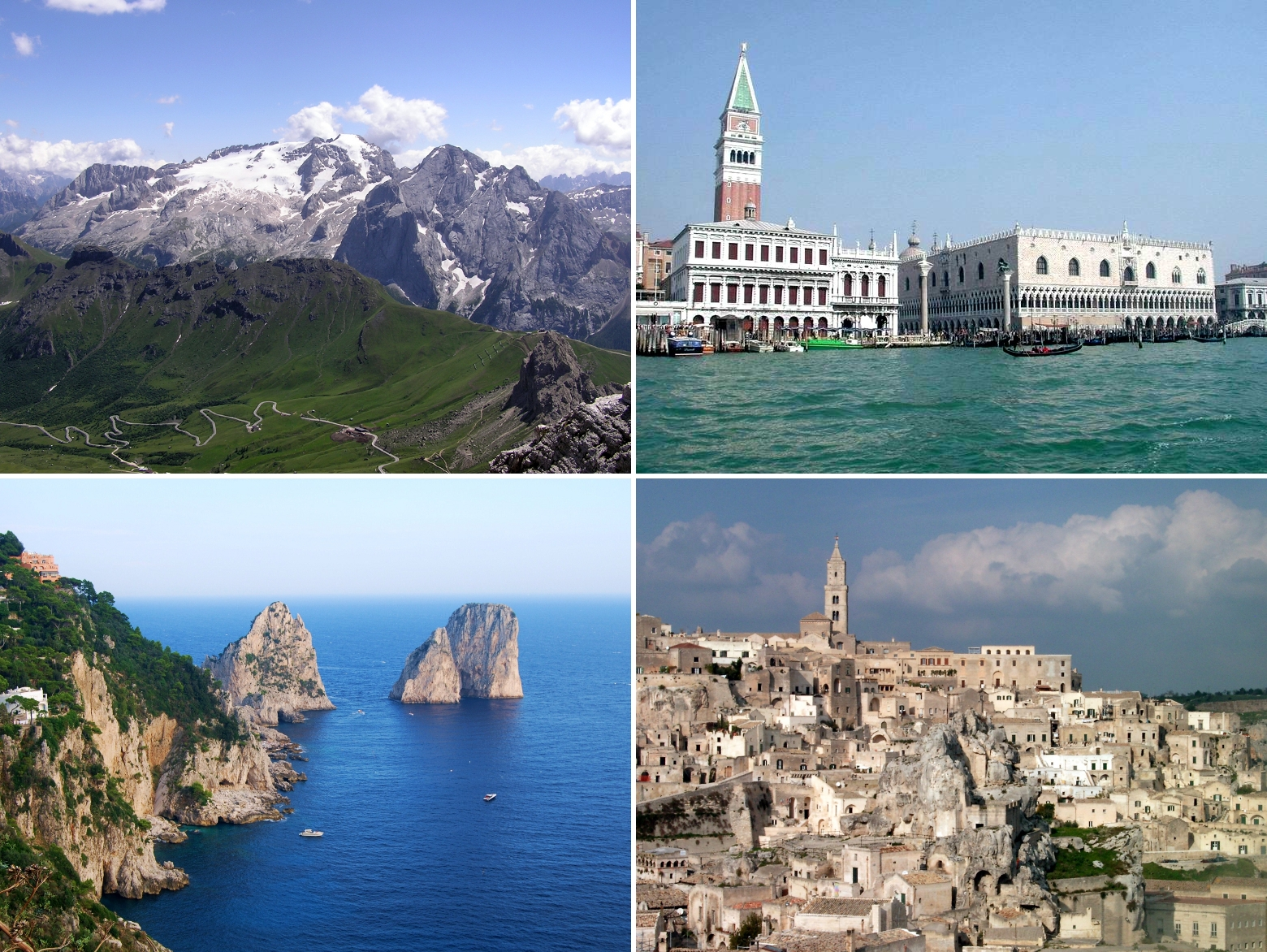 Collage: see File:Marmolata.JPG, File:San Marco.jpg, File:Matera boenisch nov 2005.jpg, File:I Faraglioni.JPG